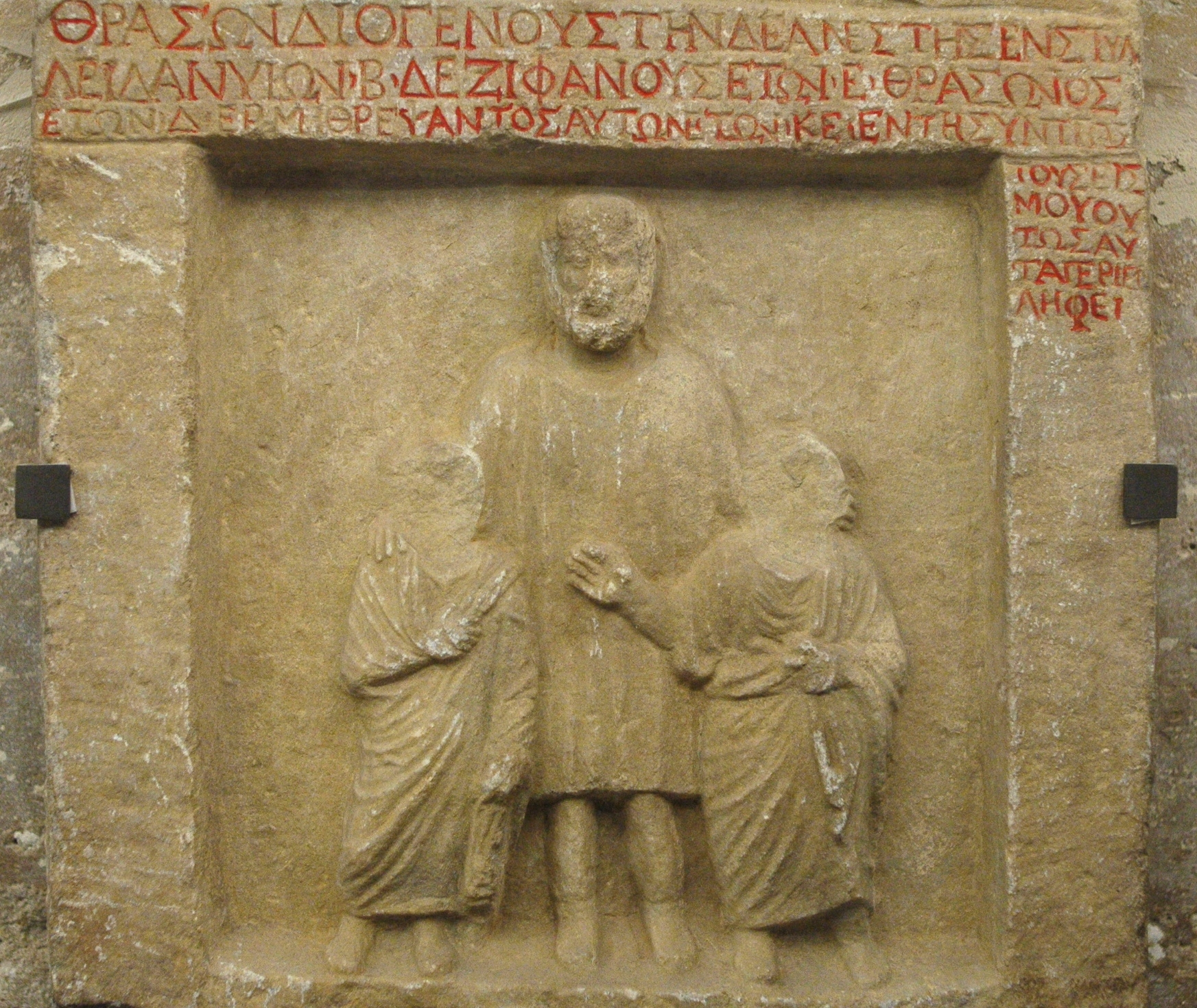 Funerary stele from Nicomedia (modern İzmit) in Bithynia, white marble, ca. 120 BC. The inscription reads: Θράσων Διογένους τήνδε ἀνέστησεν στυλλεῖδαν υἱῶν β’ Δεξιφάνους ἐτῶν ε’ Ξράσοωνος ἐτῶν δ’ Ἑρμῆ θρέψαντος αὐτῶν ἐτῶν κε’ ἐν τῇ συμπτώσει τοῦ σεισμοῦ οὕτως αὐτὰ περιειλήφει / “Thrasōn, son of Diogenes, erected this funerary stele for his two sons, Dexiphanes, age 5, and Thrasōn, age 4, and for Hermēs, age 25, who brought them up. In the earthquake collapse, so did he hold them in his arms.”